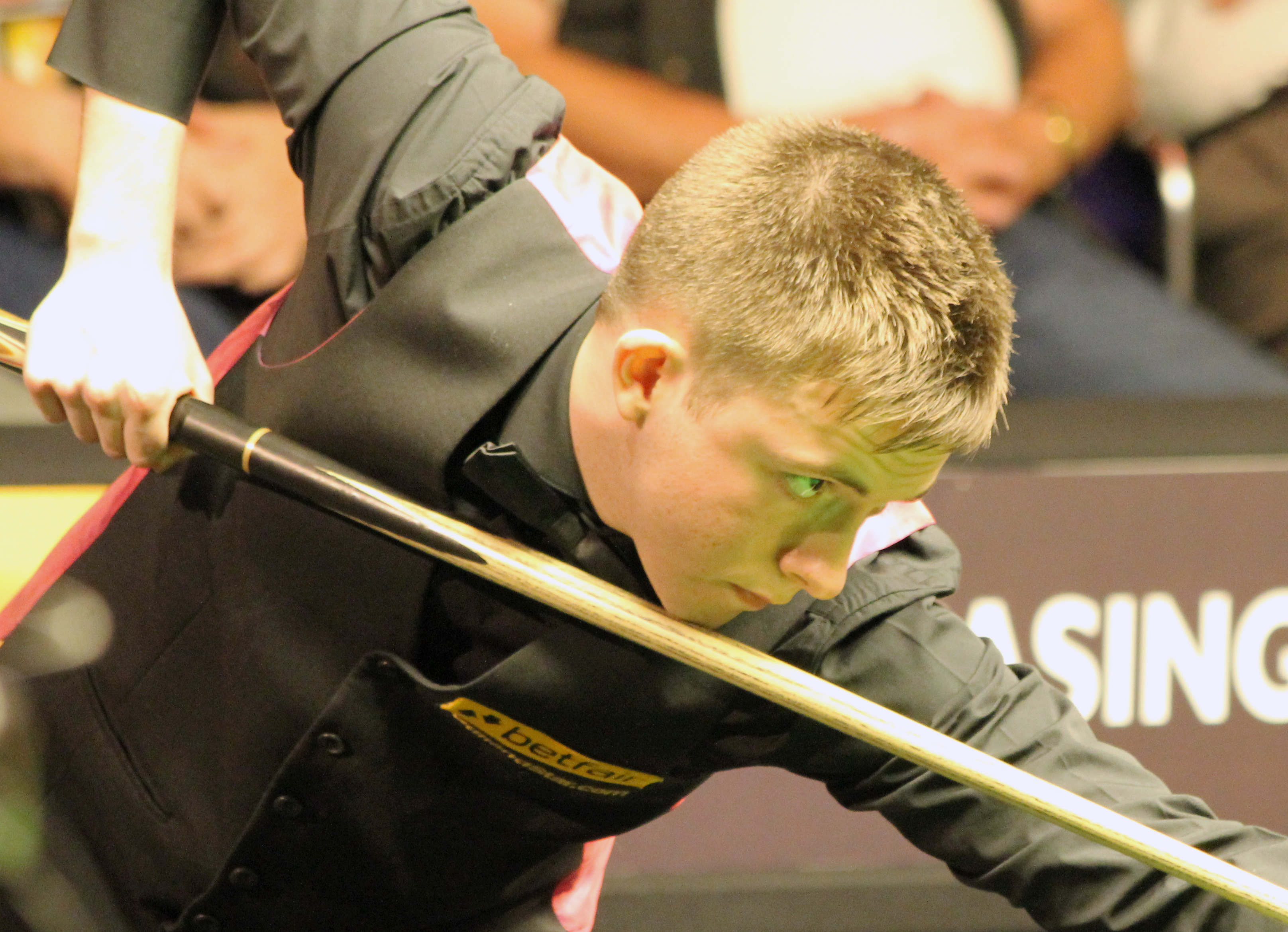 Sean O’Sullivan beim Paul Hunter Classic 2012